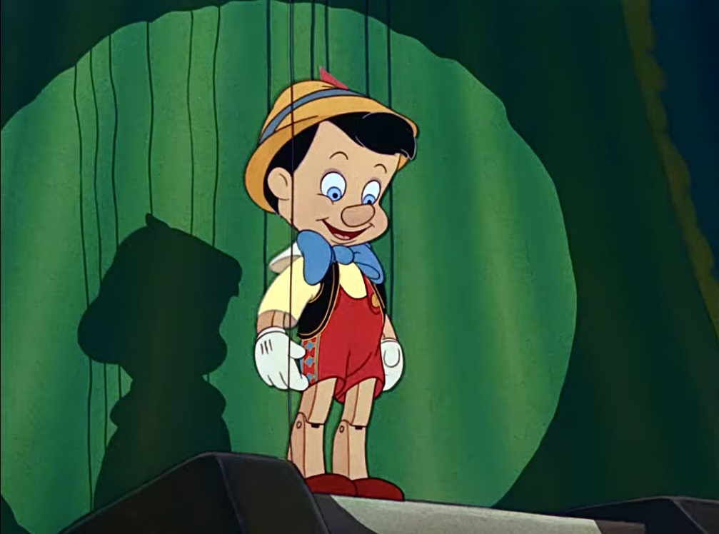 Screenshot of Pinocchio from the trailer for the film Pinocchio.